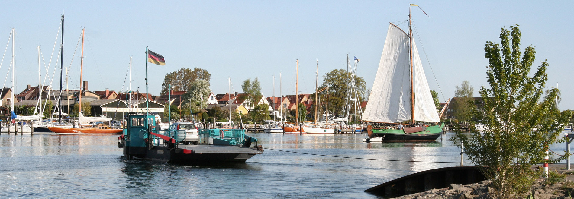 Ferry Arnis & Panorama from Arnis - seen from Sundsacker. Original photo from the year 2007 by Eckhard Schmidt (Arnis, 1943 - 2012).